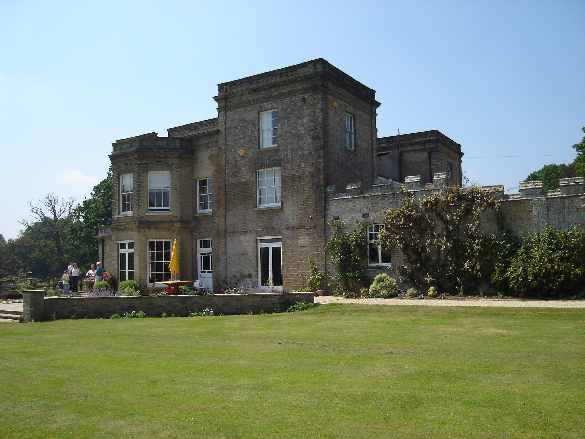 Picture of Bolwick Hall